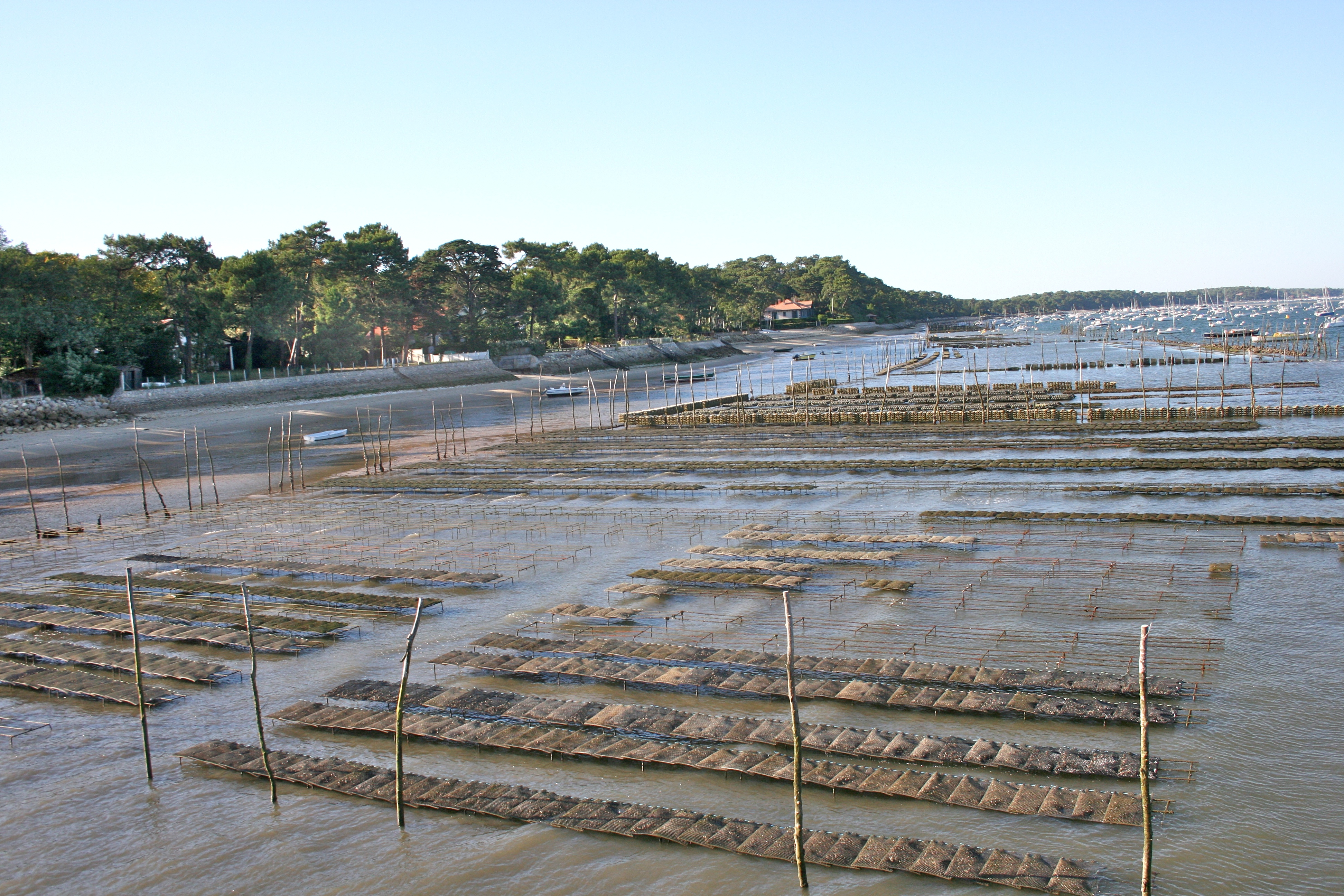 Oyster farming in Medoc, in the South of France.